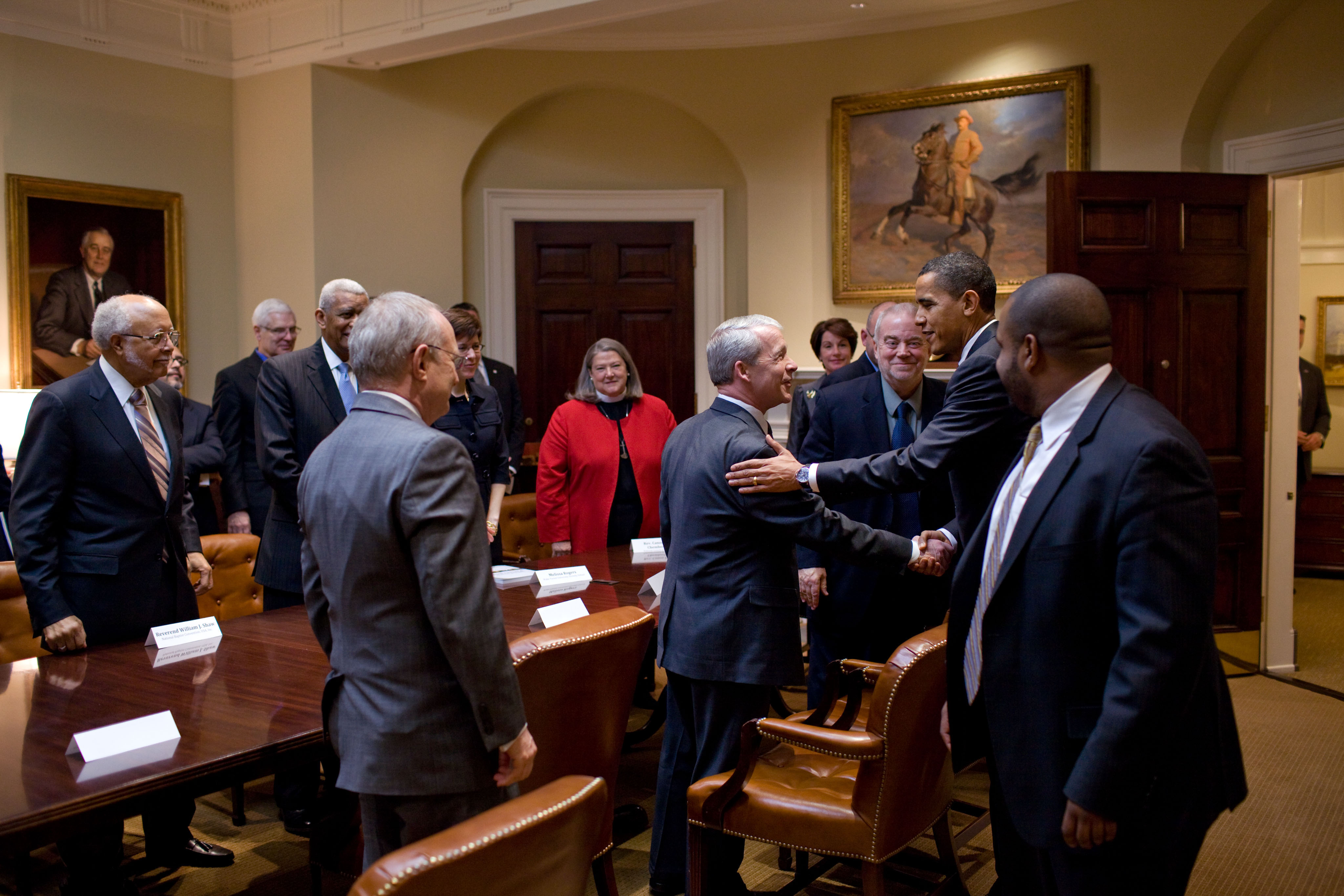 President Barack Obama greets and thanks members of the President's Council on Faith-Based and Neighborhood Partnerships during a drop by in the Roosevelt Room of the White House, March 9, 2010. (Official White House Photo by Pete Souza) This official White House photograph is in the public domain from a copyright perspective, so while restrictions such as personality or privacy rights may apply, in general, manipulations are allowed.